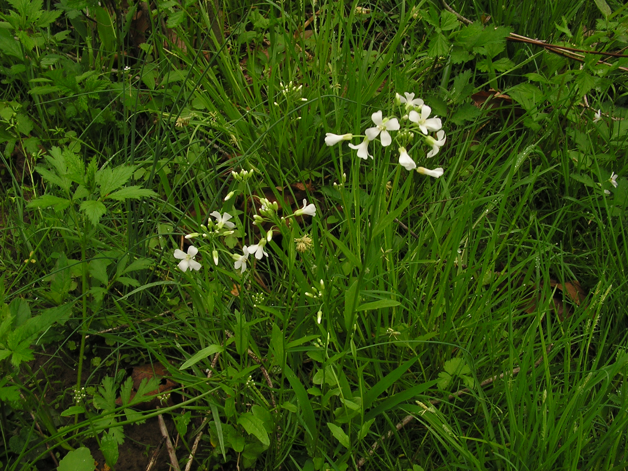 Dlowers of Cardamine bulbosa